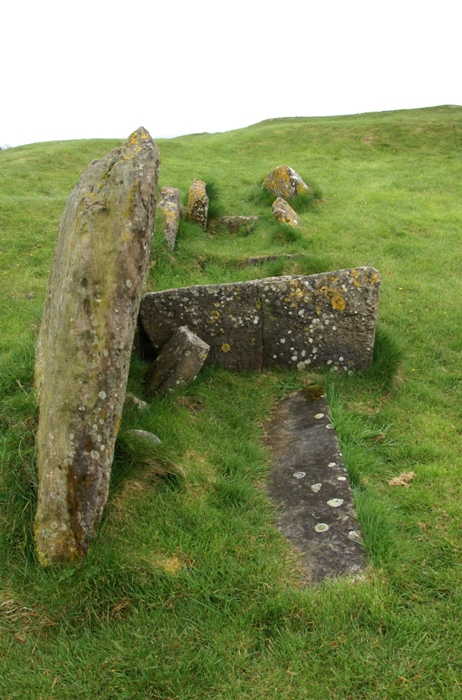 Torrylin Cairn, Arran, Scotland